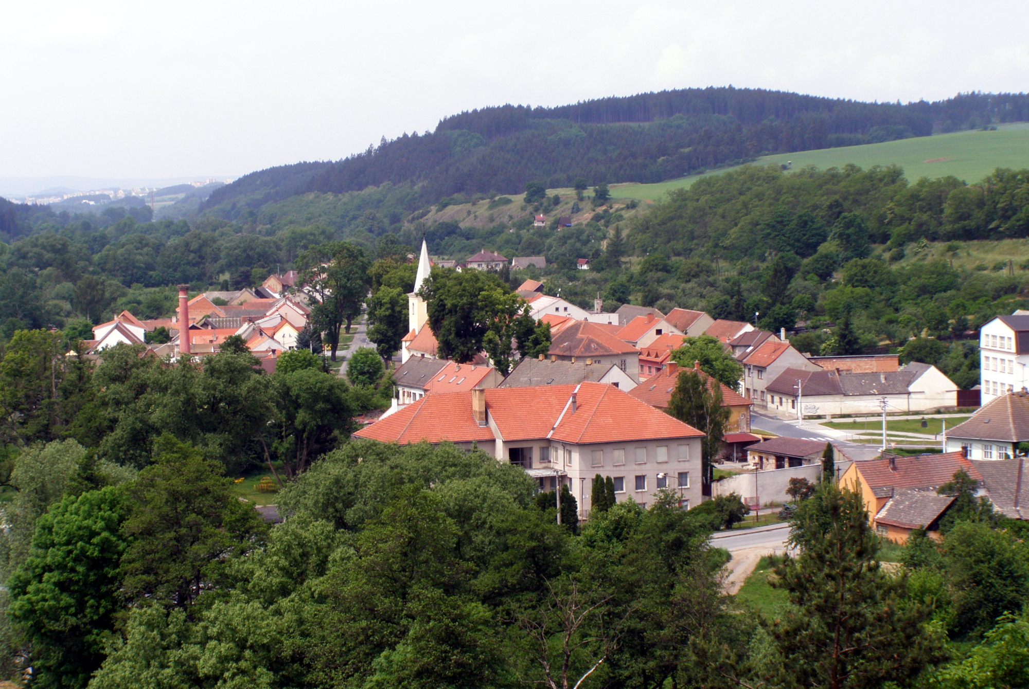 Vladislav. View to the West